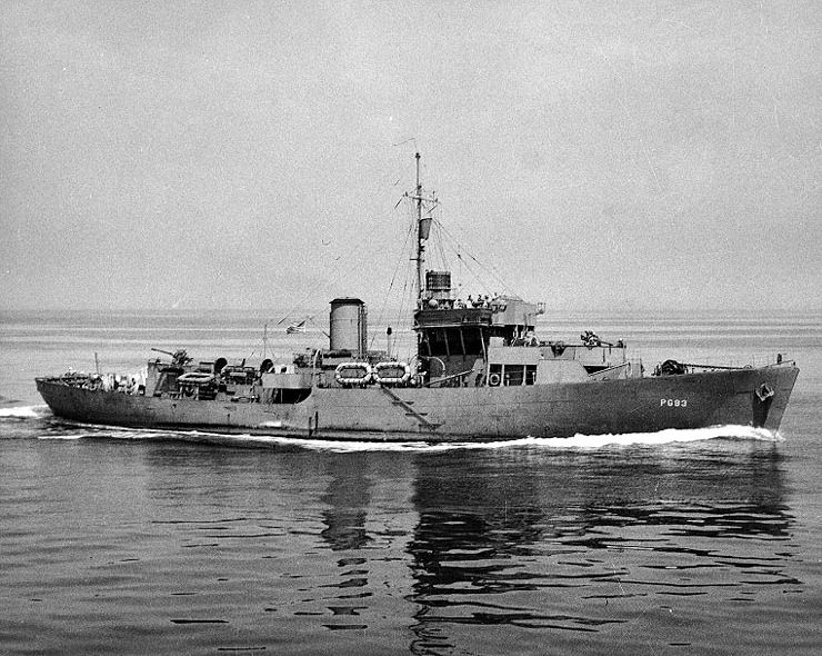 USS Intensity (PG-93), a Flower class corvette, mid-1943.Downloaded from [1] thumb|HMCS Fennel (K194) Compare this picture with that of the Fennel. Note the differing position of the bandstand, where the original rear AA gun was mounted. The Intensity has the bandstand above the extreme aft end of the superstructure, as in most Flowers built in Canada. The Fennel has her bandstand in the position of RN Flowers.